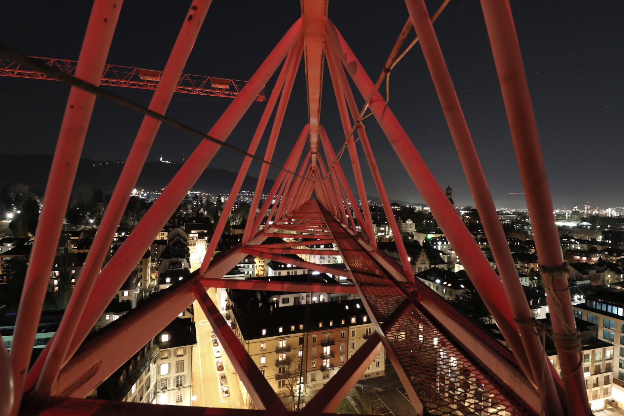 This is the arm of a construction crane in Zurich at night.